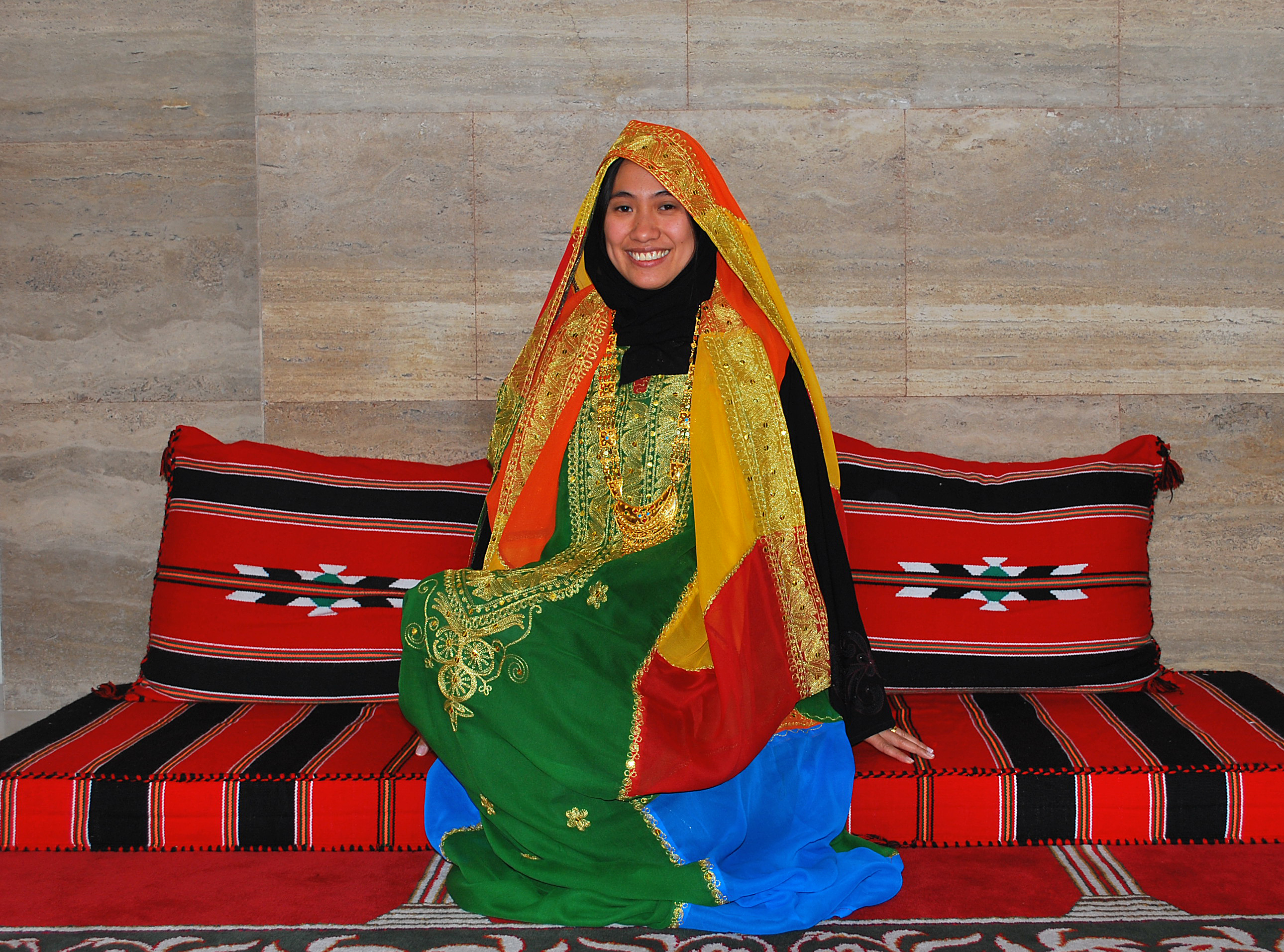 Woman wearing a colourful Bahraini wedding costume.